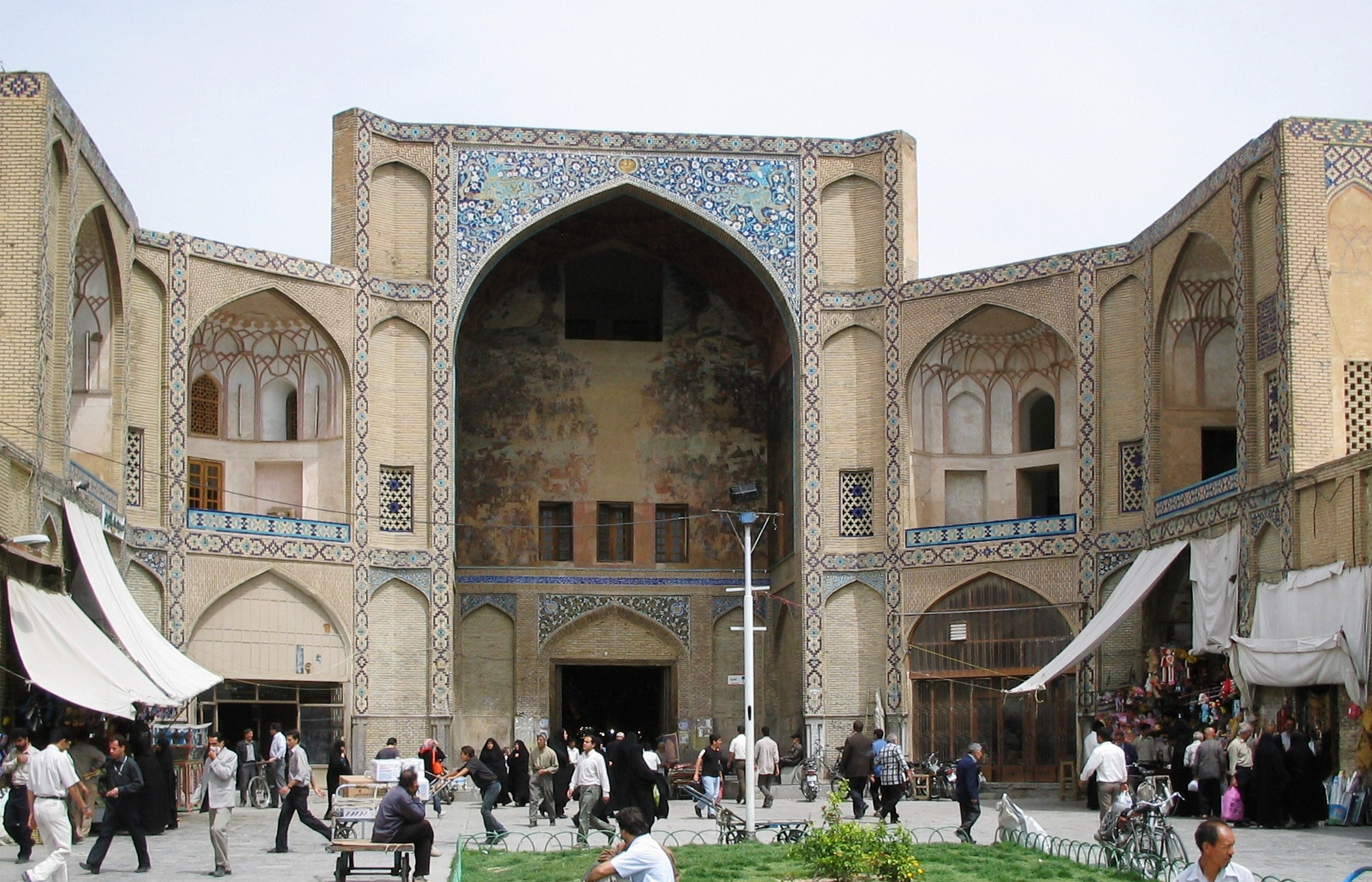 Bazaar entrance on Naghsh-e Jahan square, Esfahan, Iran